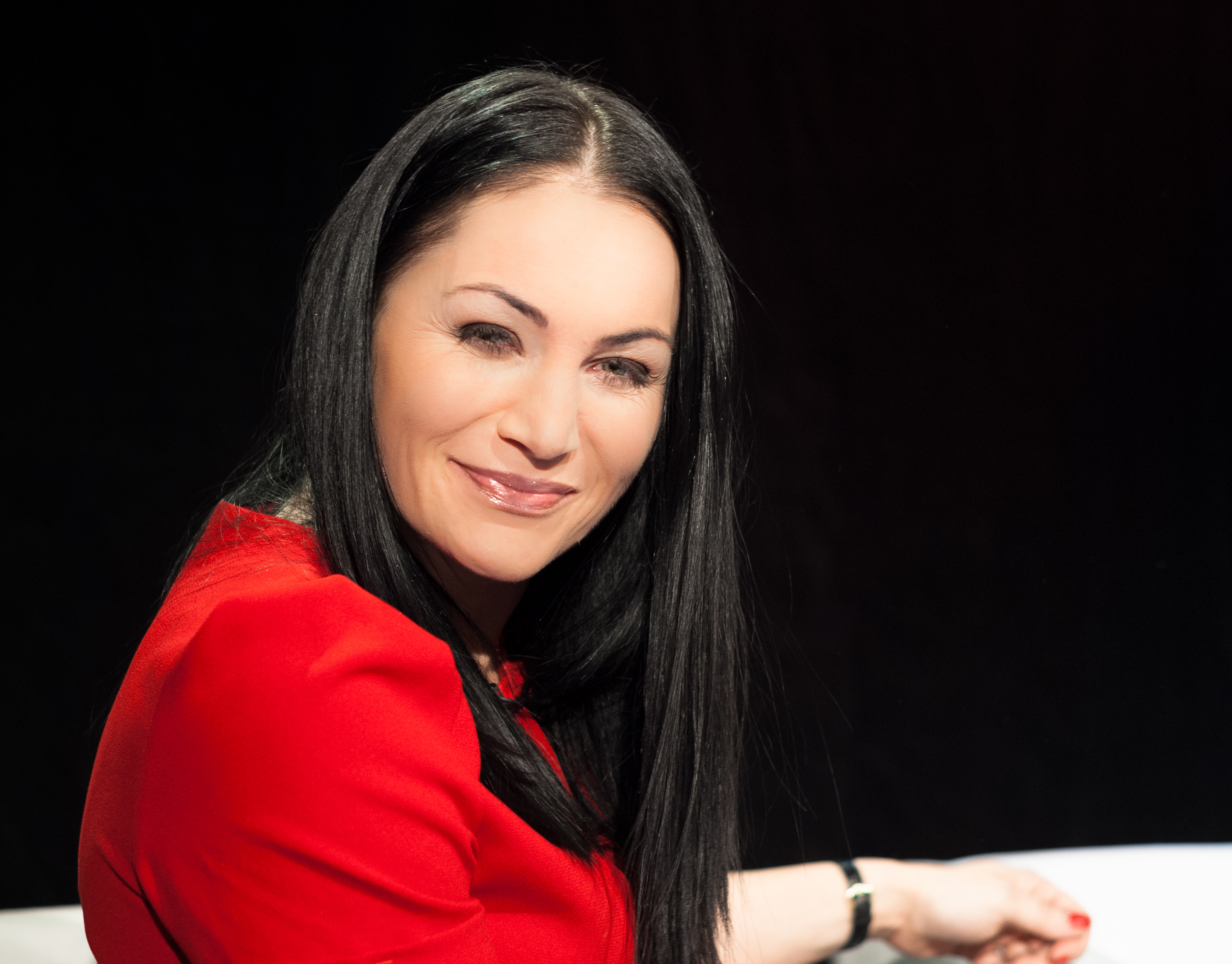 Agnieszka Rylik - Polish boxer, world champion, TVN reporter.